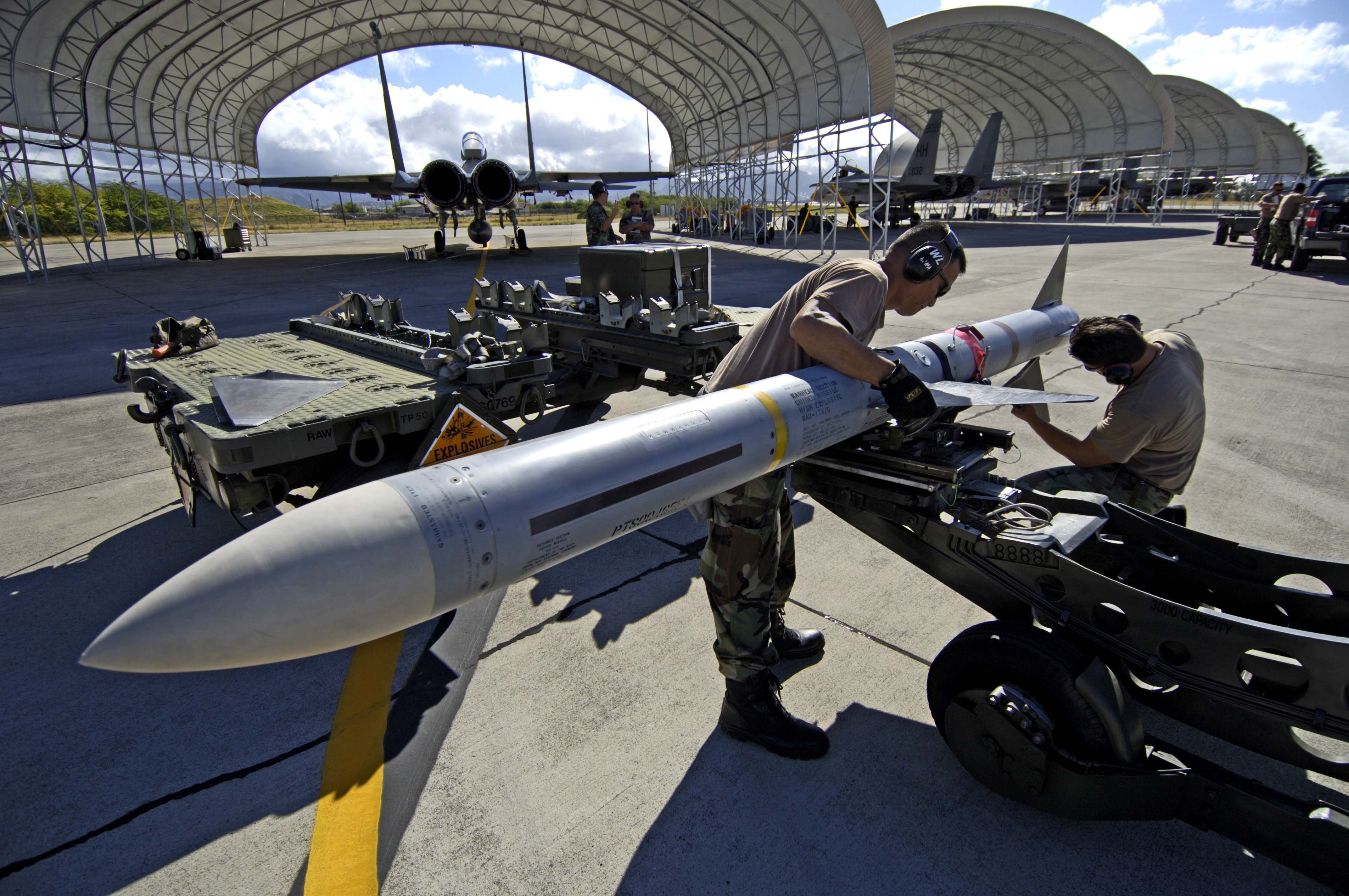 U.S. Air Force Staff Sgts. Gabriel Coronado and Arthur Hamabata install the wings and fins on an AIM-7 Sparrow missile at Hickam Air Force Base, Hawaii, on July 16, 2006, during exercise Rim of the Pacific. The exercise, commonly called RIMPAC, brings together military forces from Australia, Canada, Chile, Peru, Japan, the Republic of Korea, the United Kingdom and the United States in the world's largest biennial maritime exercise. Coronado and Hamabata are from the Hawaii Air National Guard 154th Aircraft Maintenance Squadron.